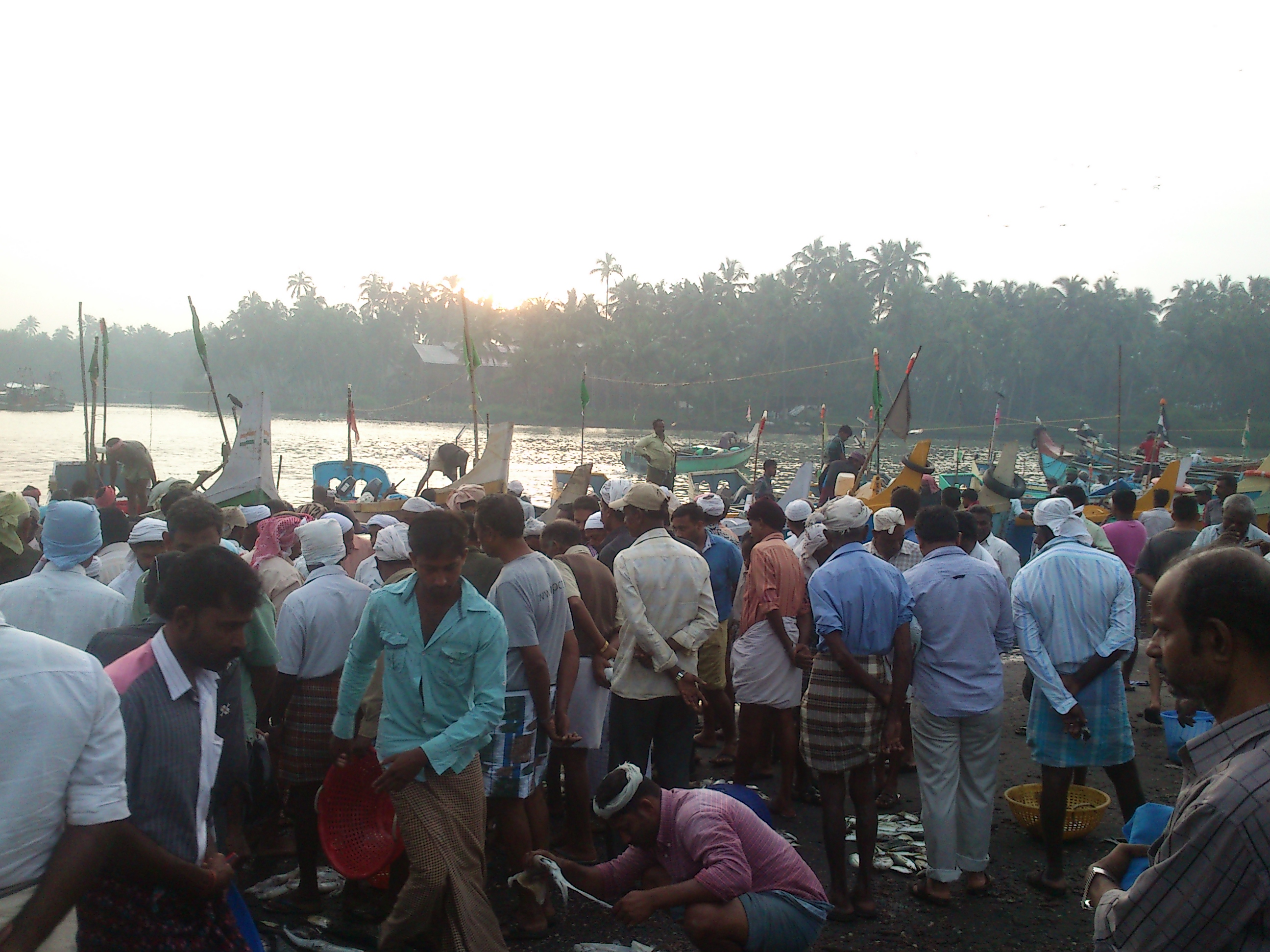 Beypore Fishing in Morning